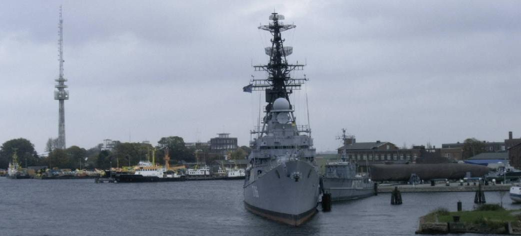 Wilhelmshaven harbour area with the Naval Museum in the right foreground and the bouy yard to the left. The warships displayed in the museum are Destroyer "Mölders" - centre Minehunter "Weilheim" - centre right Submarine "U 10" - right background, ashore Fast Torpedoboat, former East German Navy Type "Libelle" - far right, ashore